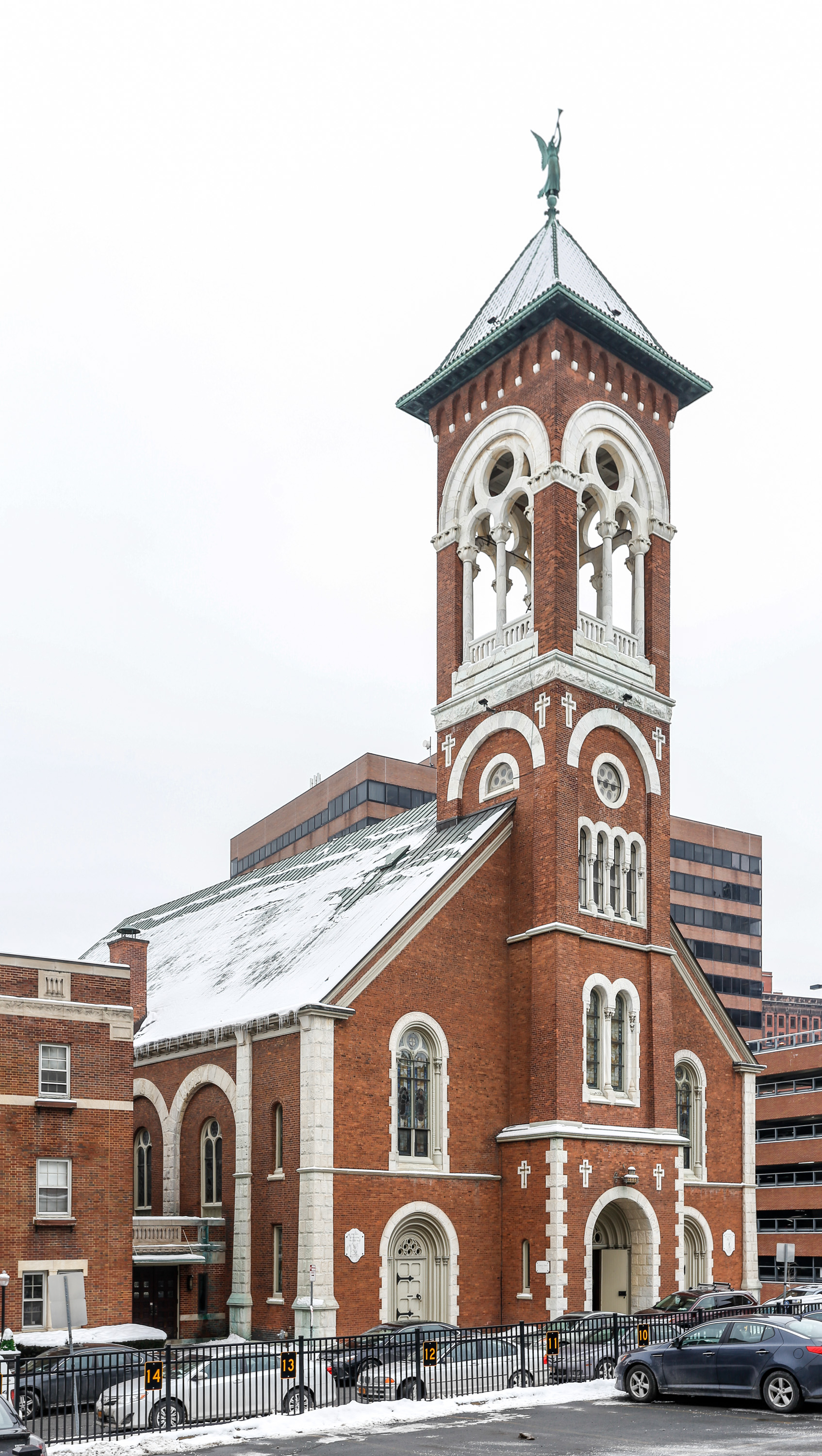 St. Mary's Church (Albany, New York)